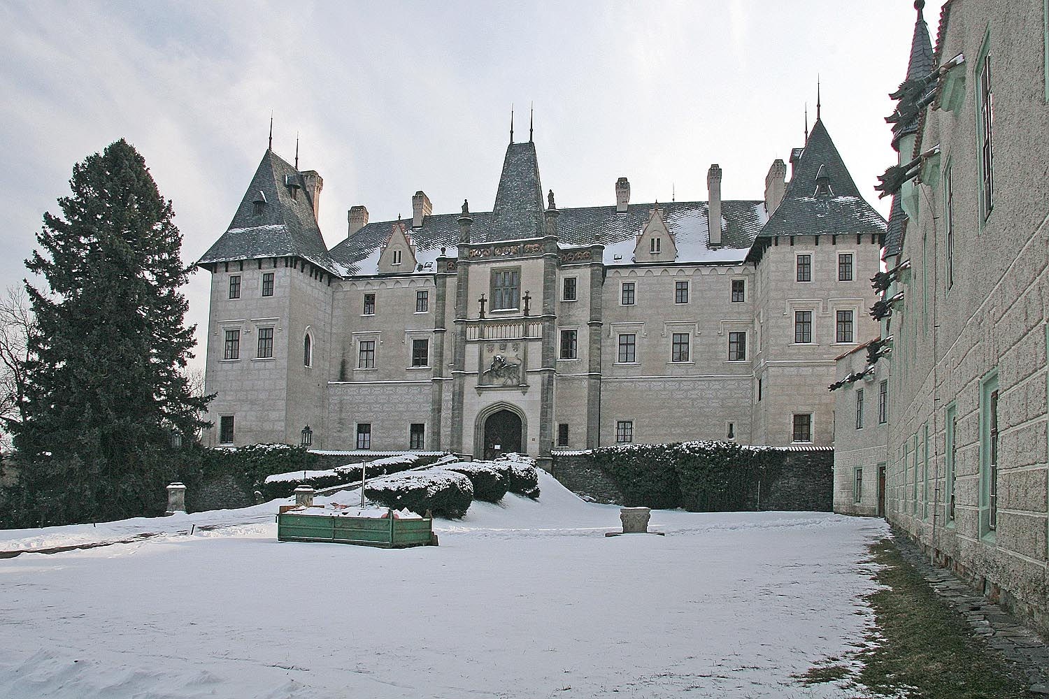 Castle Žleby, district Kutná Hora, Czech Republic autor: Prazak Date: 13. 3. 2006